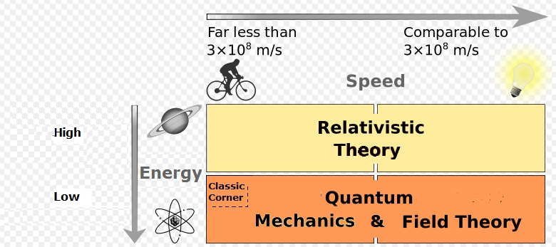 A computer model would use only quantum theory and relativistic theory